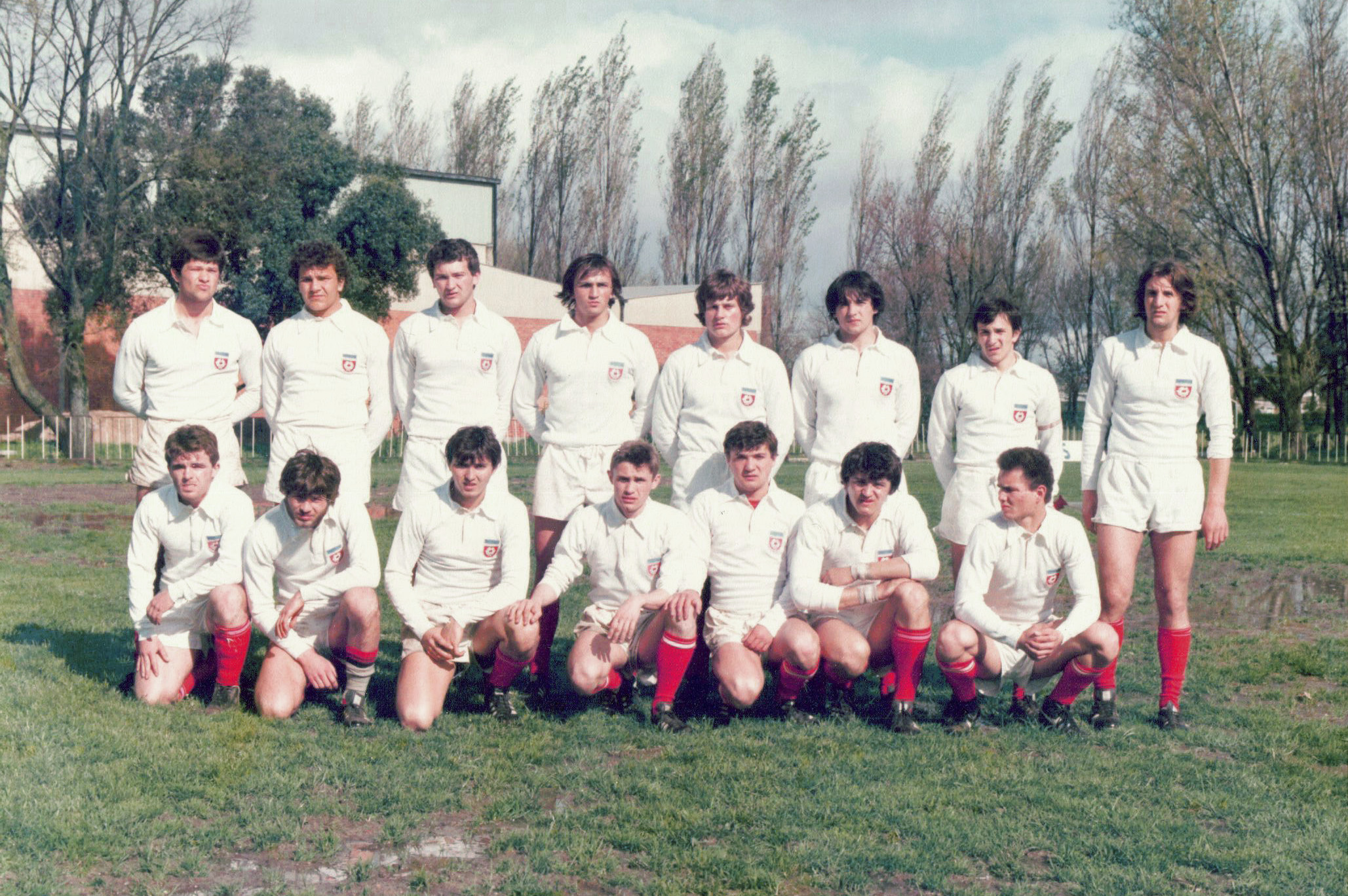 Team photo of Yugoslavia U19 national rugby team which participated on FIRA U19 Championship in Portugal 1979